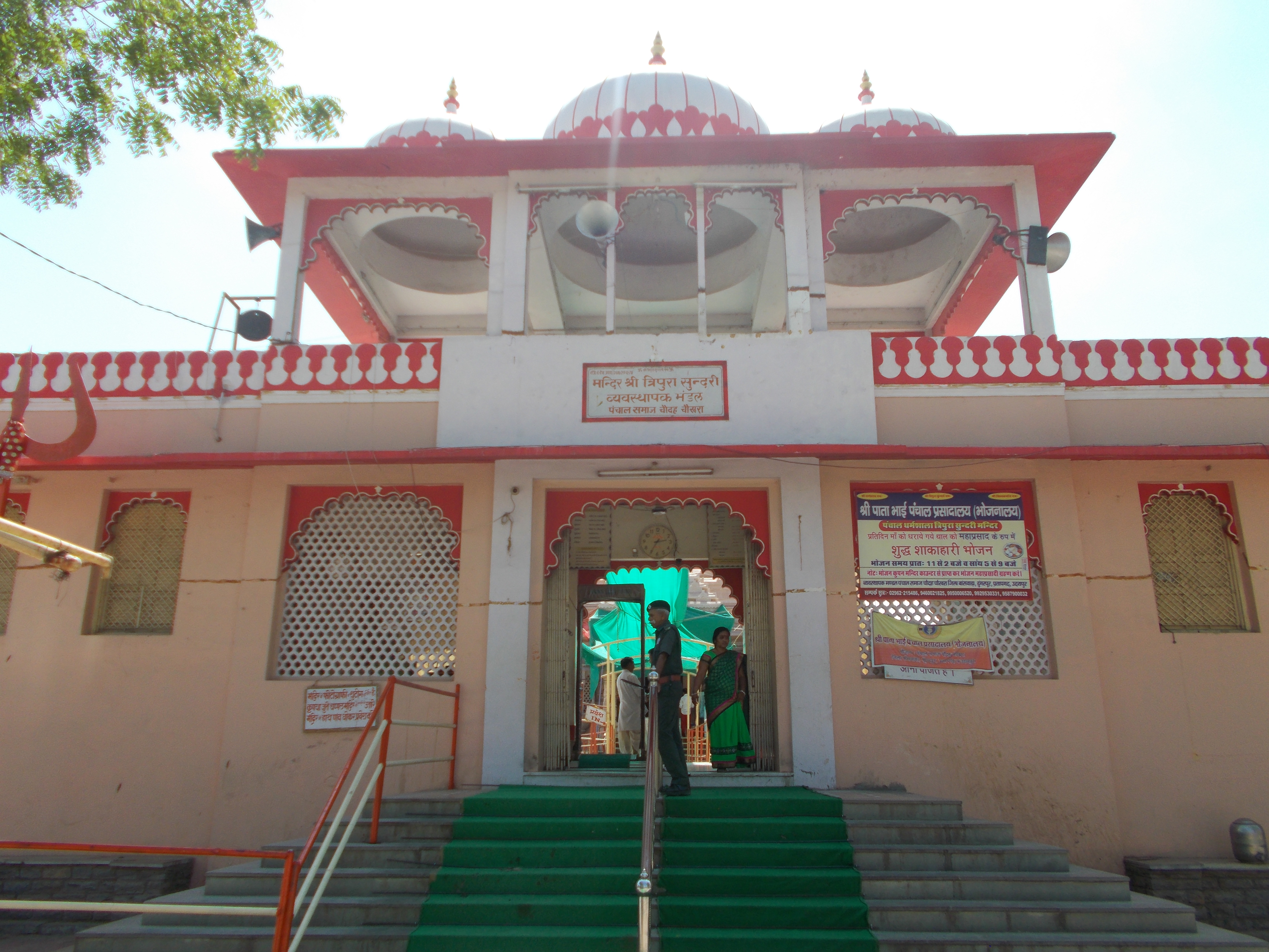 shri tripura sundari temole in banswara. it is one of the shakti peeths .